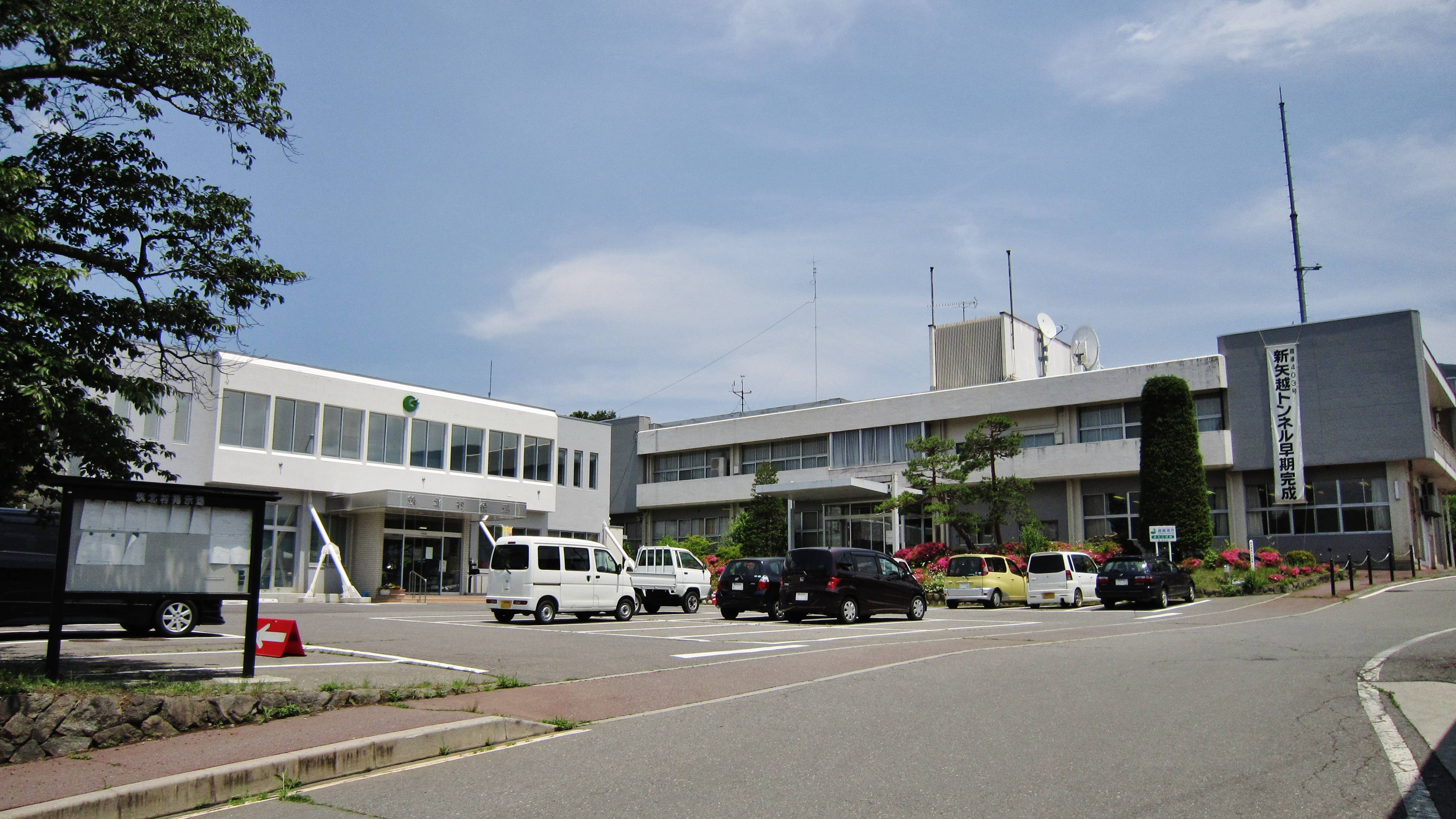 Chikuhoku village office.